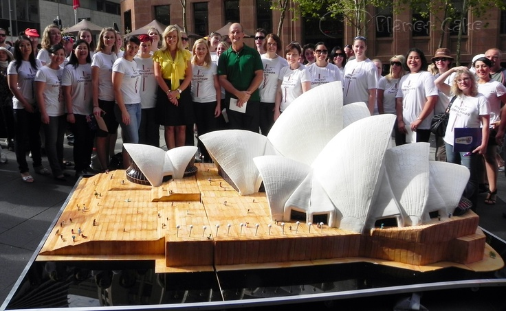 Planet Cake has created a host of amazing ‘stunt’ cakes, the most famous being this realistic replica of the Sydney Opera House for Australia Day 2011, which weighed over 1.3tons and required 32 cake decorators to make.